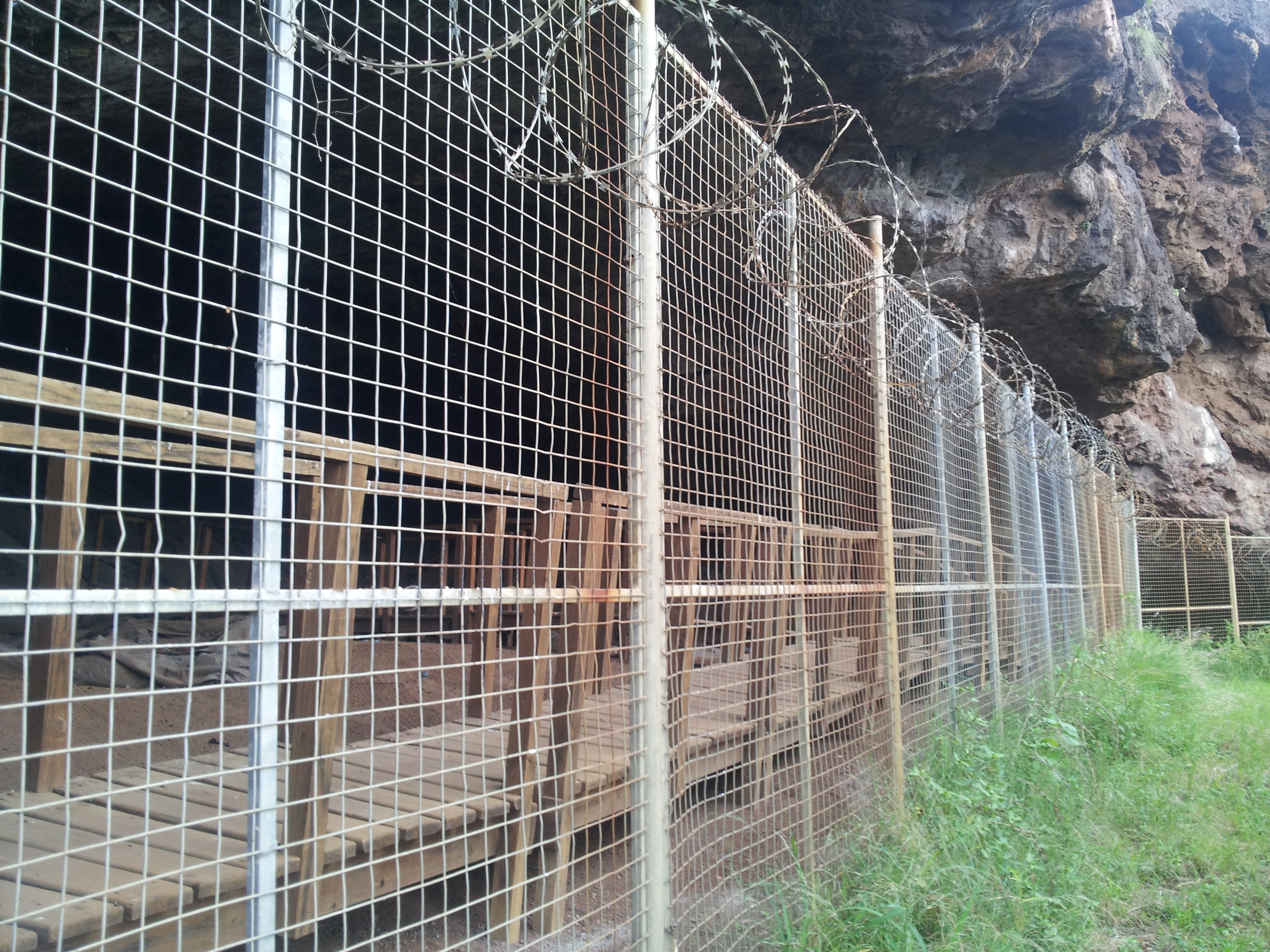 This media shows a South African Protected Site with SAHRA file reference 24684.